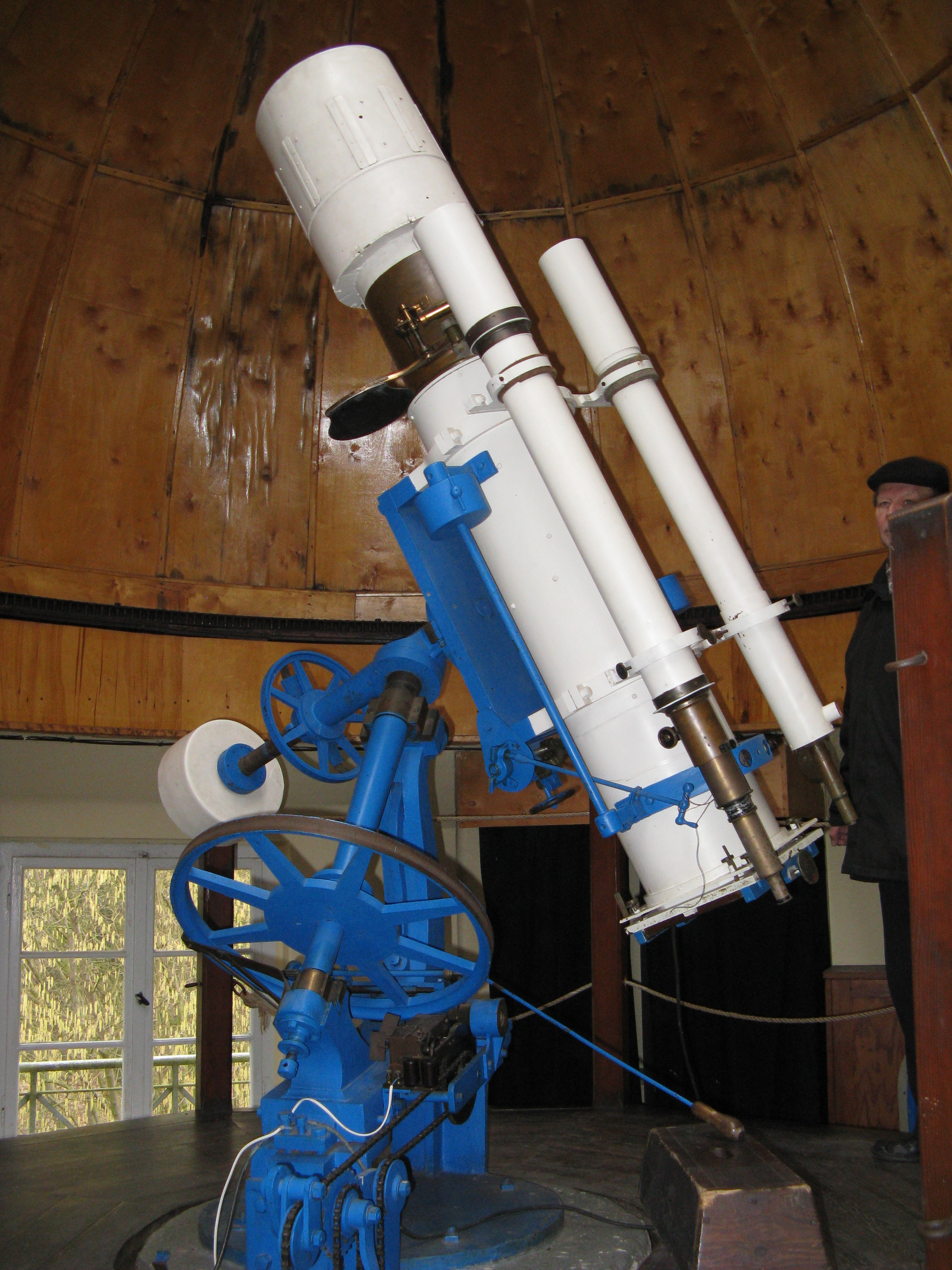 historical Henry Draper's telescope in Piwnice